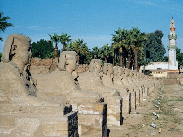 Luxor Temple Luxor, Egypt Allée des sphinxes Photo taken by Hajor, Dec. 2001. Released under cc.by.sa and/or GFDL.